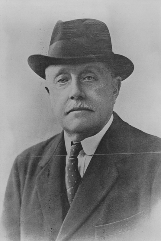 Frederik Willem Christiaan Hendrik van Tuyll van Serooskerken (1851–1924), baron, first Dutch member of the IOC (1899), founder of the Nederlands Olypisch Commiteé (NOC) (Dutch Olympic Committee)